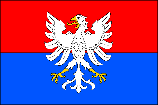 Municipal flag of Kralice na Hané village, Prostějov District, Czech Republic.